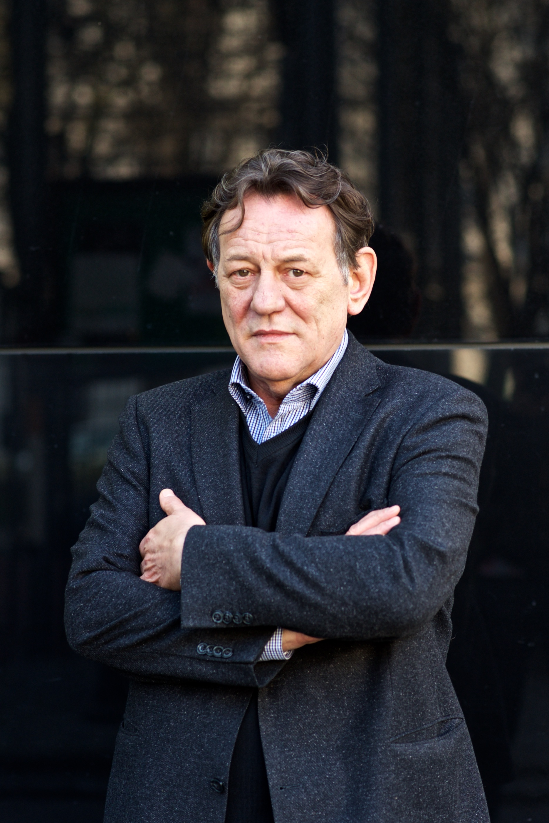 Lorenz Gallmetzer